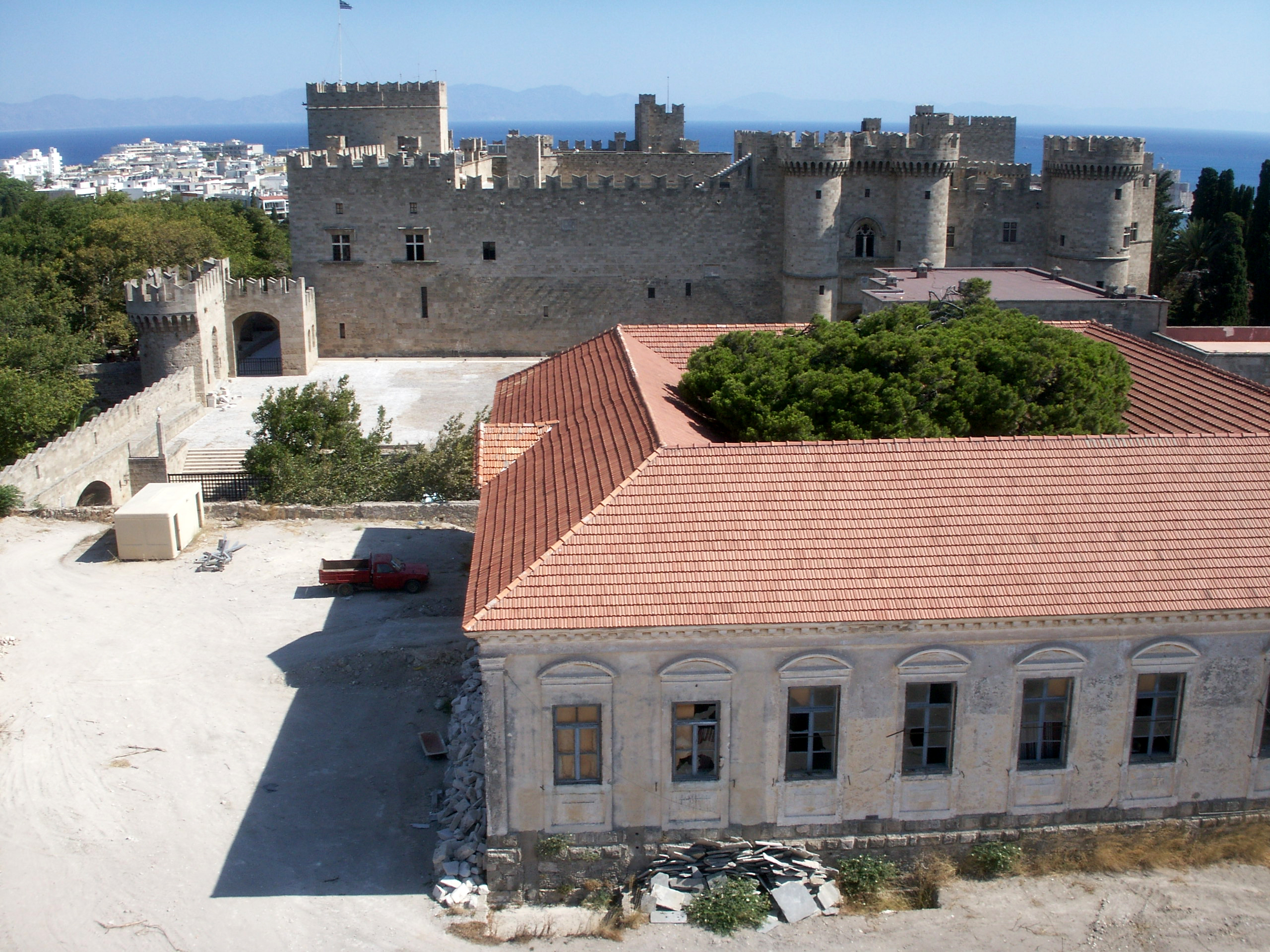 View of Rhodes city.